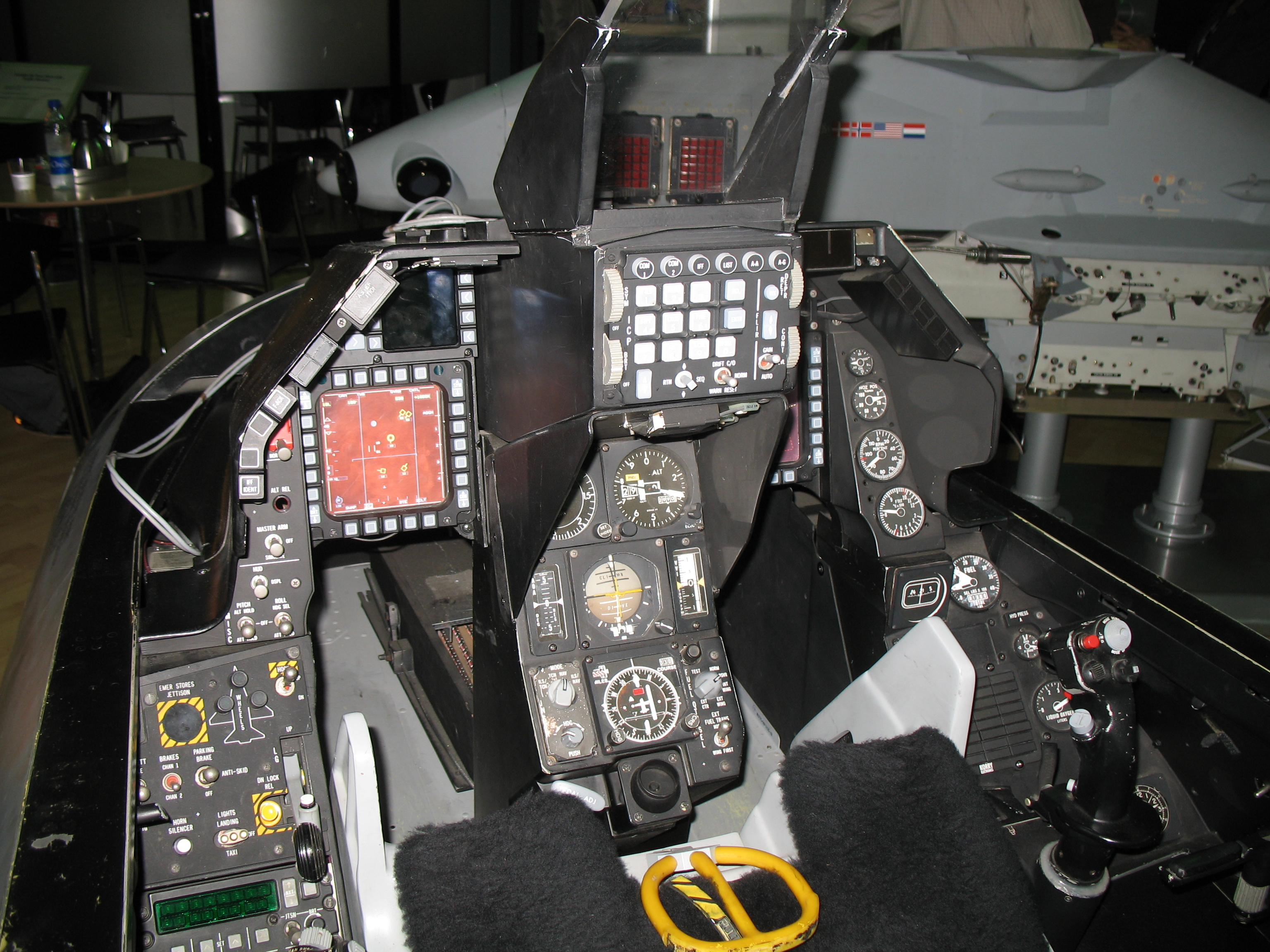 Picture taken by author at Asian Aerospace 2006, Singapore on 21 Feb 2006. This picture is of a trainer, not the actual aircraft. The most common model C differs extremely from this picture. Camera: Canon Powershot A620 Flash, 1/60s, f2.8, f=7mm, pattern metering mode, +2EV, 3072 x 2304